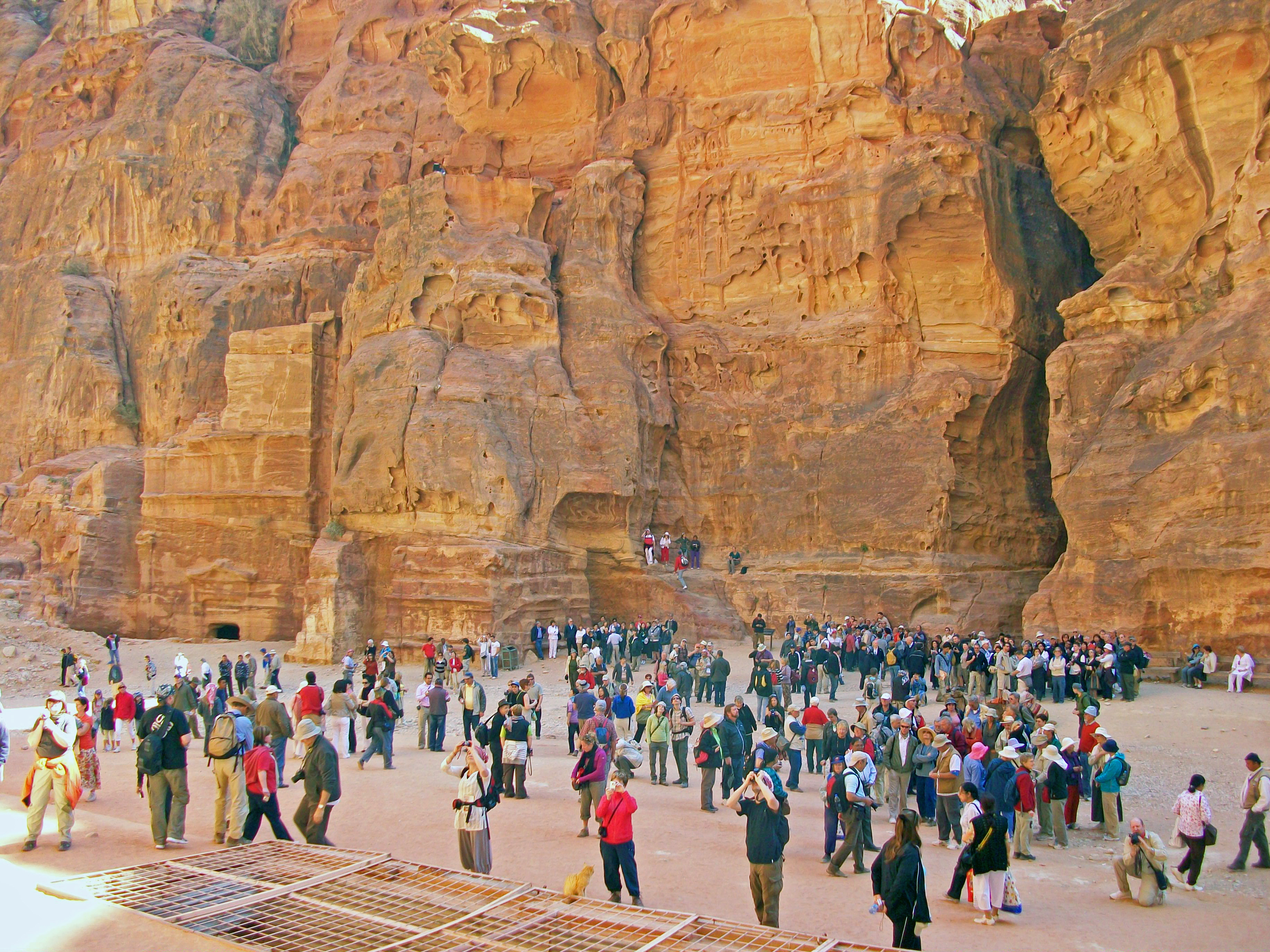 Tourists who have just reached the end of the Siiq (open cleft at right), photograph Petra's most distinctive structure, Al-Khazneh. This is basically the reverse view of the commonly taken picture.